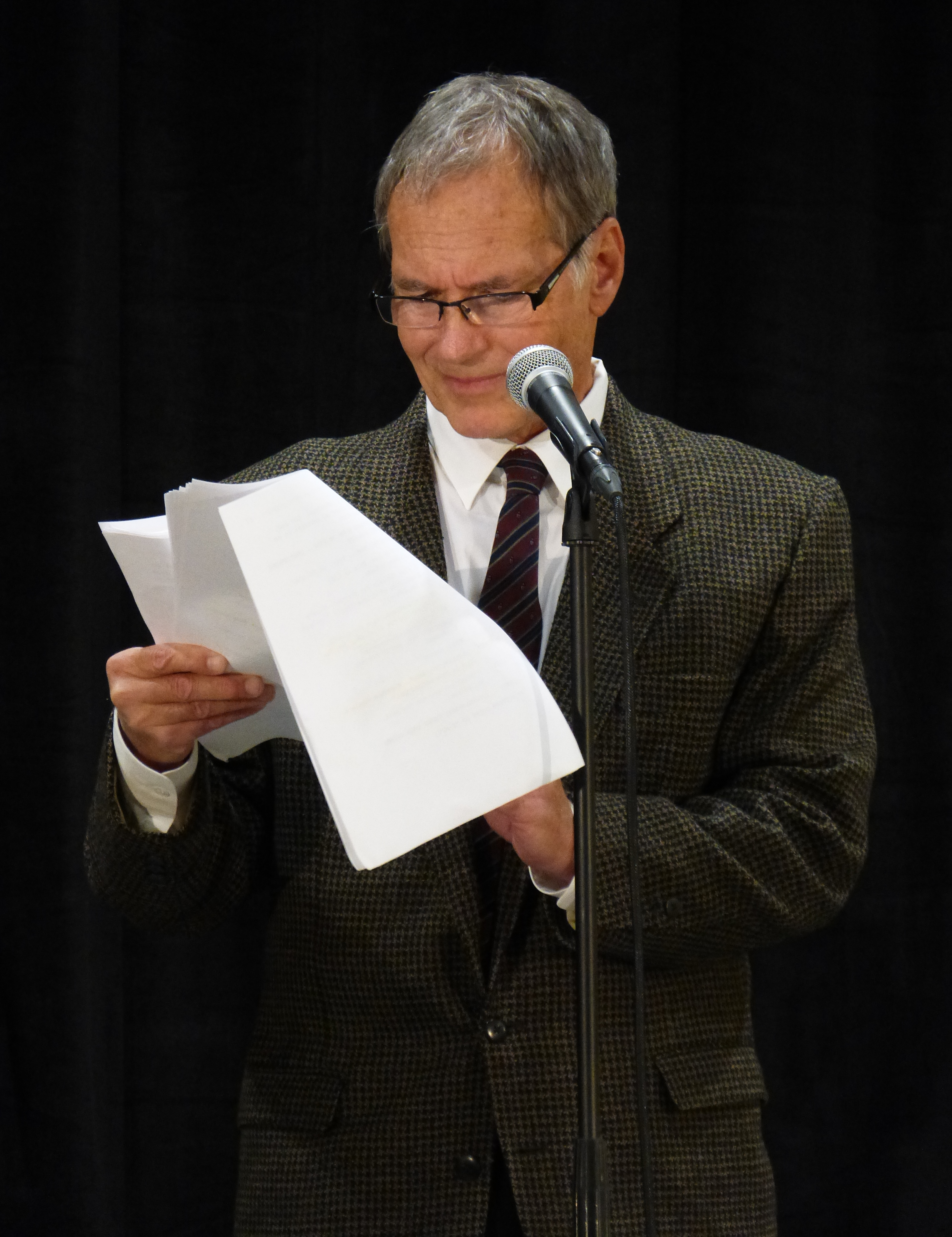 A photo of English actor Neil Dickson in 2015.